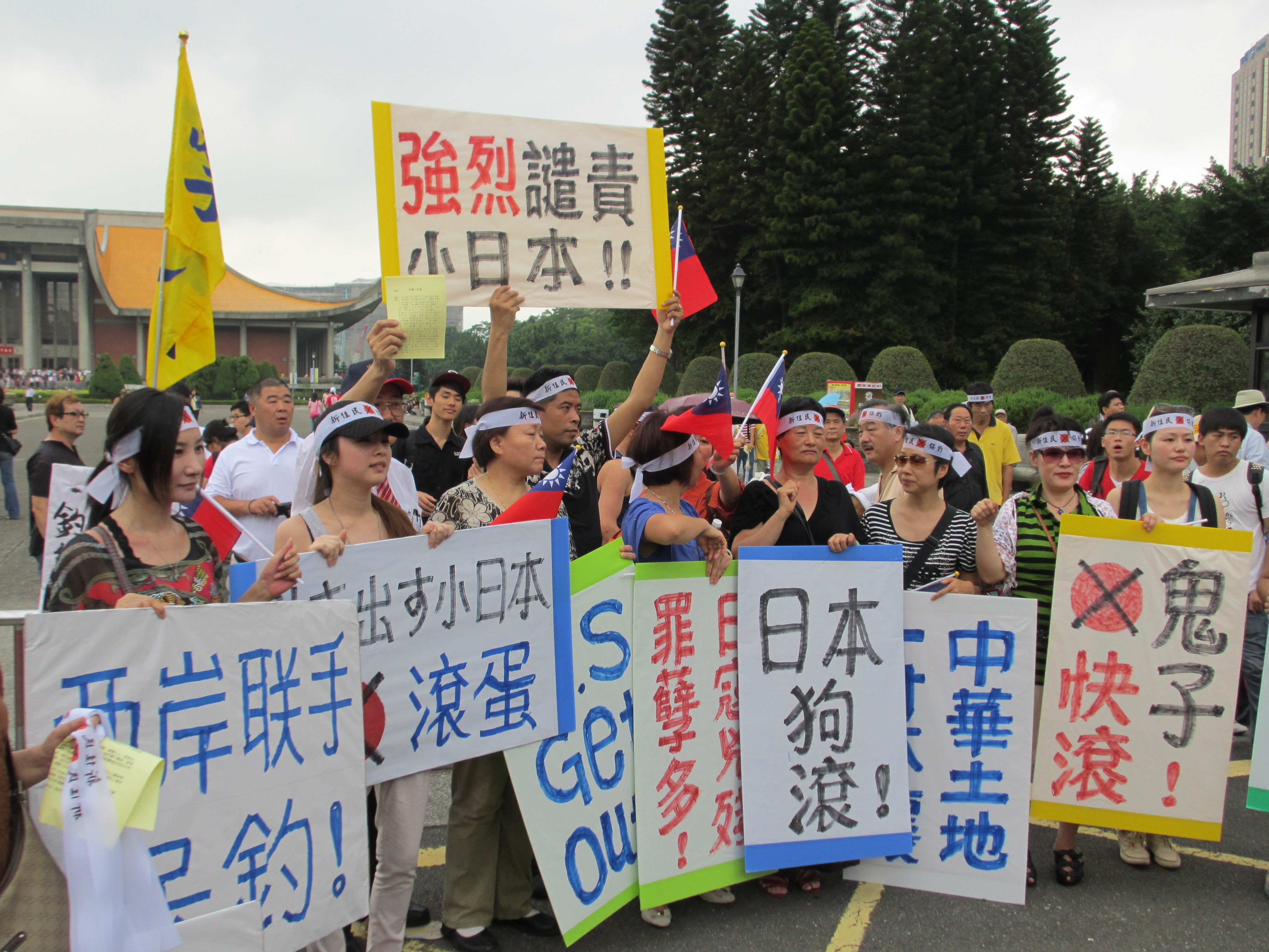 Demonstration against Japanese occupation of Diaoyu Dao in Taipei, Taiwan.